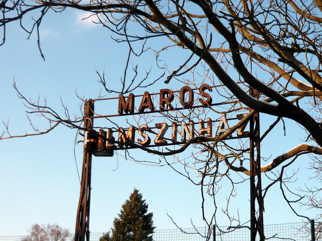 Maros film theatre neon